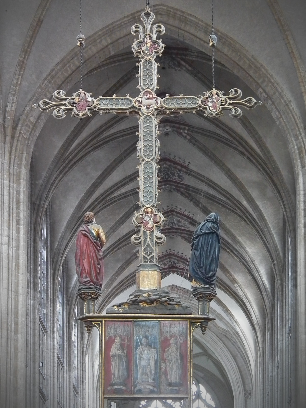 St. Peter's Church Native nameSint-Pieterskerk, LeuvenLocationLeuven, BelgiumCoordinates50° 52′ 46″ N, 4° 42′ 04″ E Established1425Authority control : Q17722 VIAF: 136401019 LCCN: no2005076338 UNESCO: 943-012 WorldCat institution QS:P195,Q17722